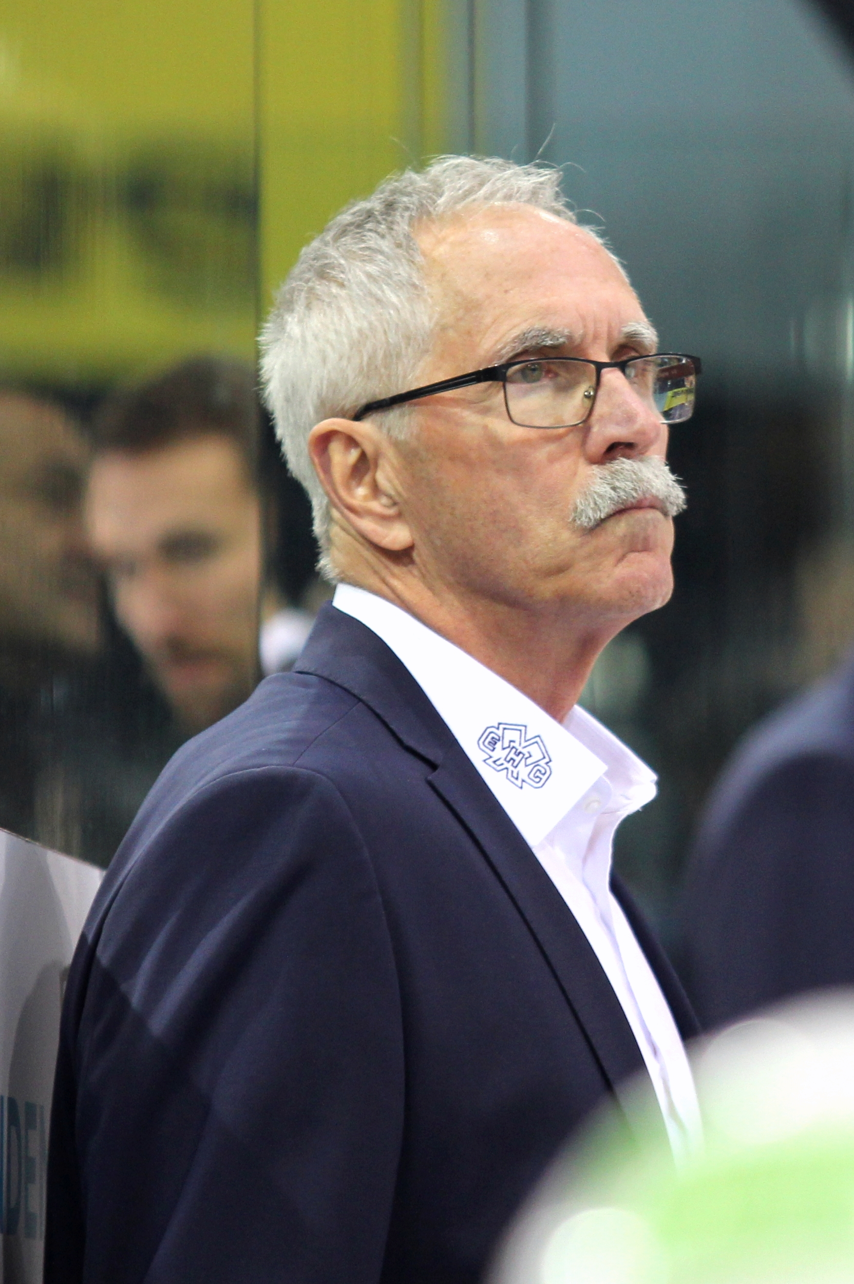 Mike McNamara (B Head Coach).